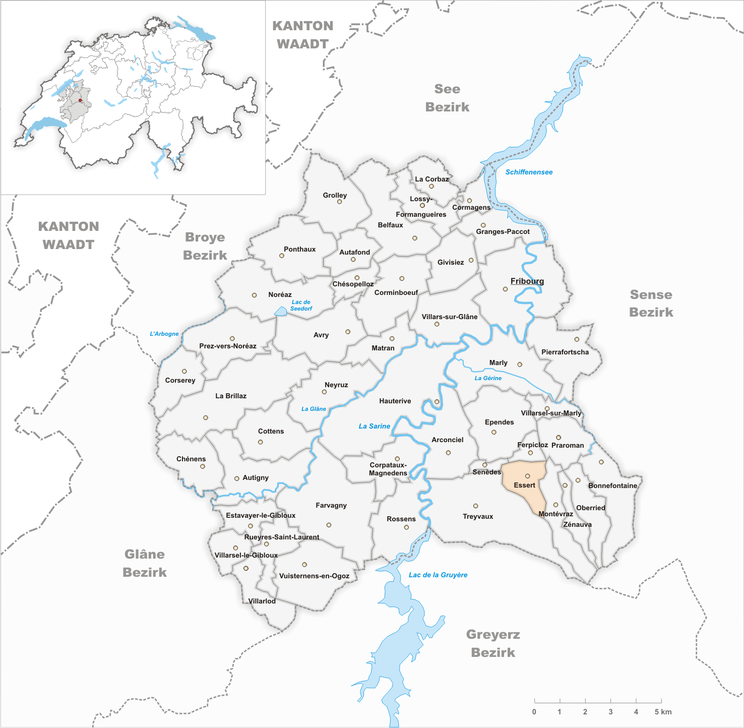 Municipality Essert Artist: Tschubby